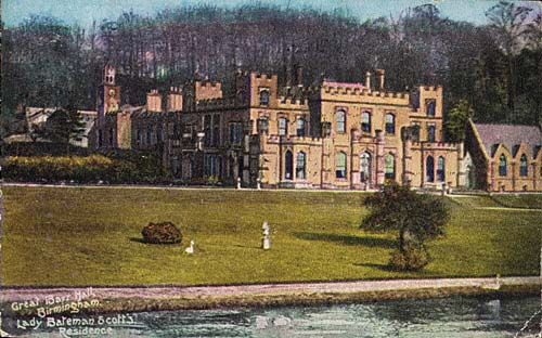 Painted postcard, showing Great Barr Hall, near Walsall, England.